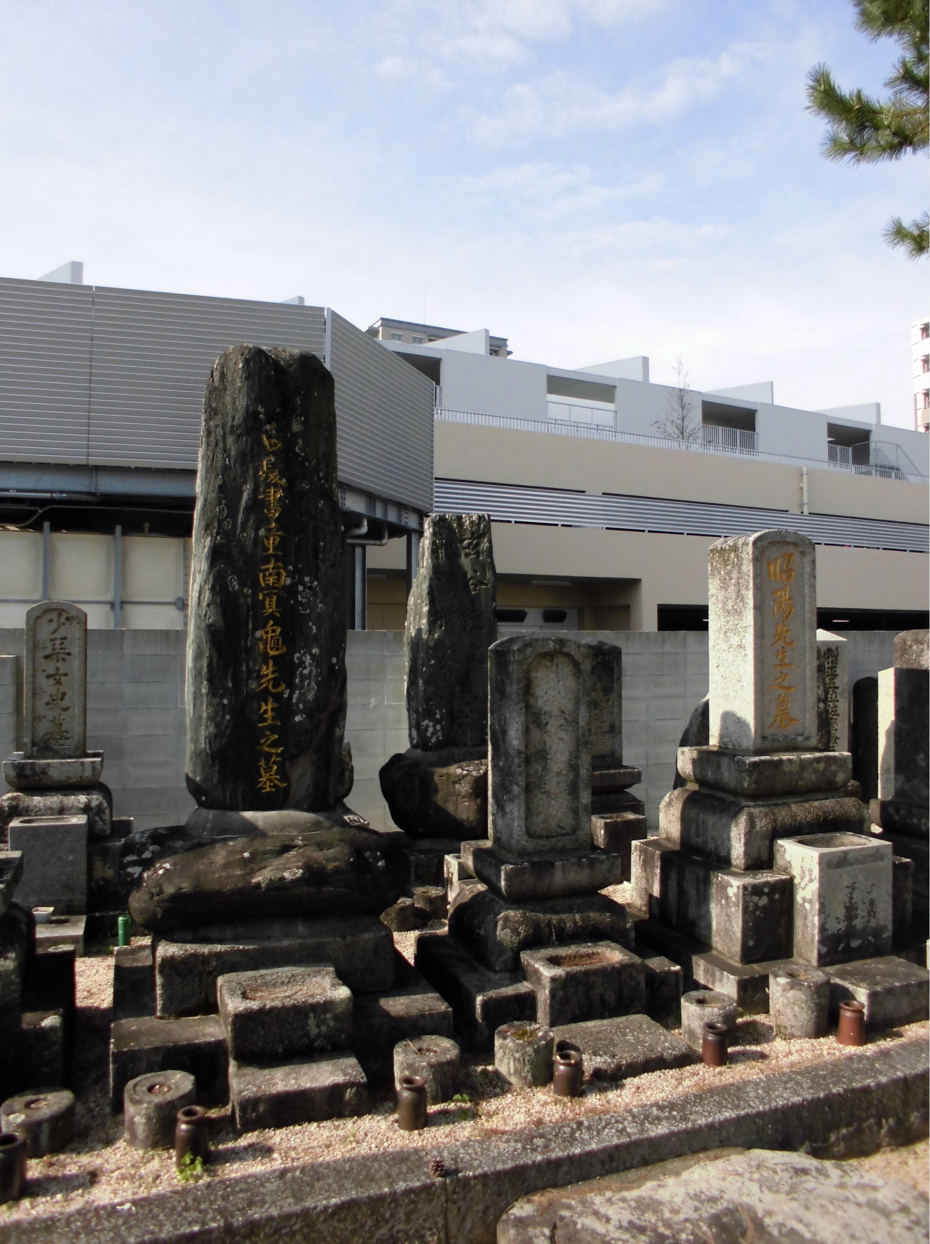 Grave of Kamei Nanmei and his family in the Jōman-Temple, Fukuoka-City, Japan. Kamei Nanmei was one of the leading 18th century scholars of the Fukuoka Domain.